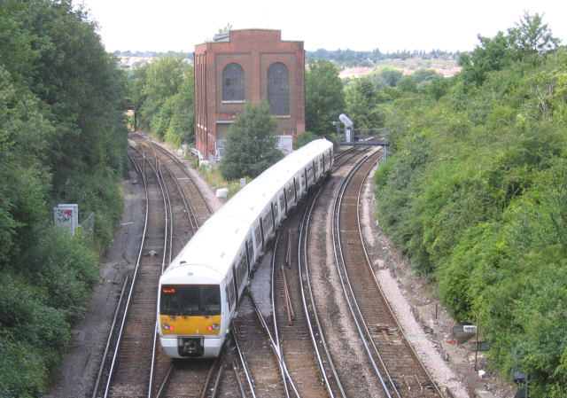 Dartford Junction. One of the new 'Electrostar' trains passes the substation at Dartford Junction on its way from Dartford to London Cannon Street.